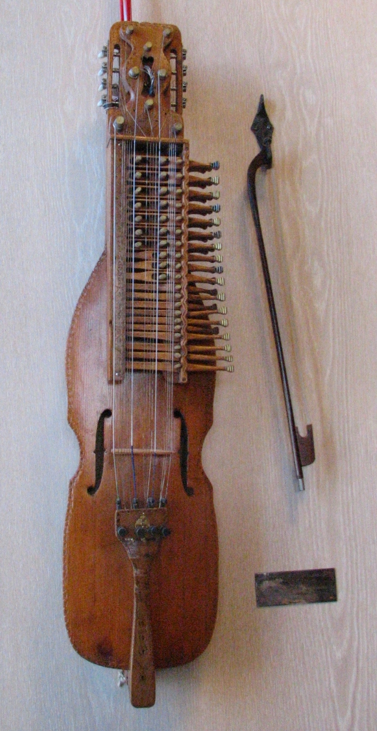 Nyckelharpa built by the Swedish nyckelharpa pioneer Eric Sahlström. This one is to be found in the city hall of the commune of Tierps in Sweden.